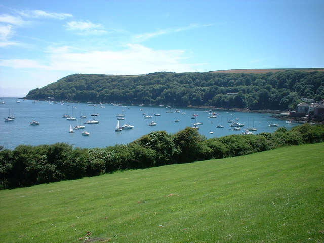 Cawsand Bay and Penlee Point